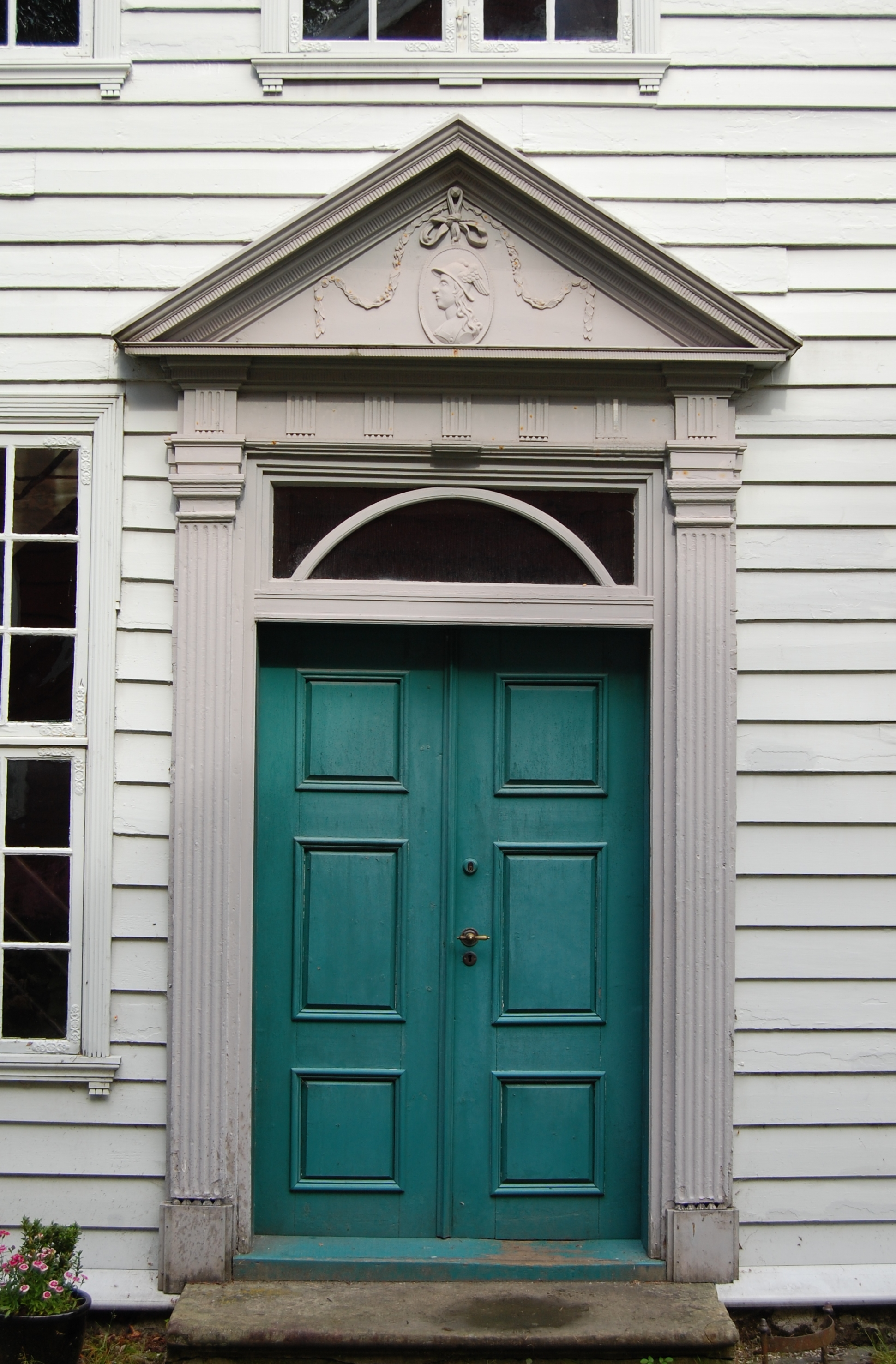 Krohnstedet